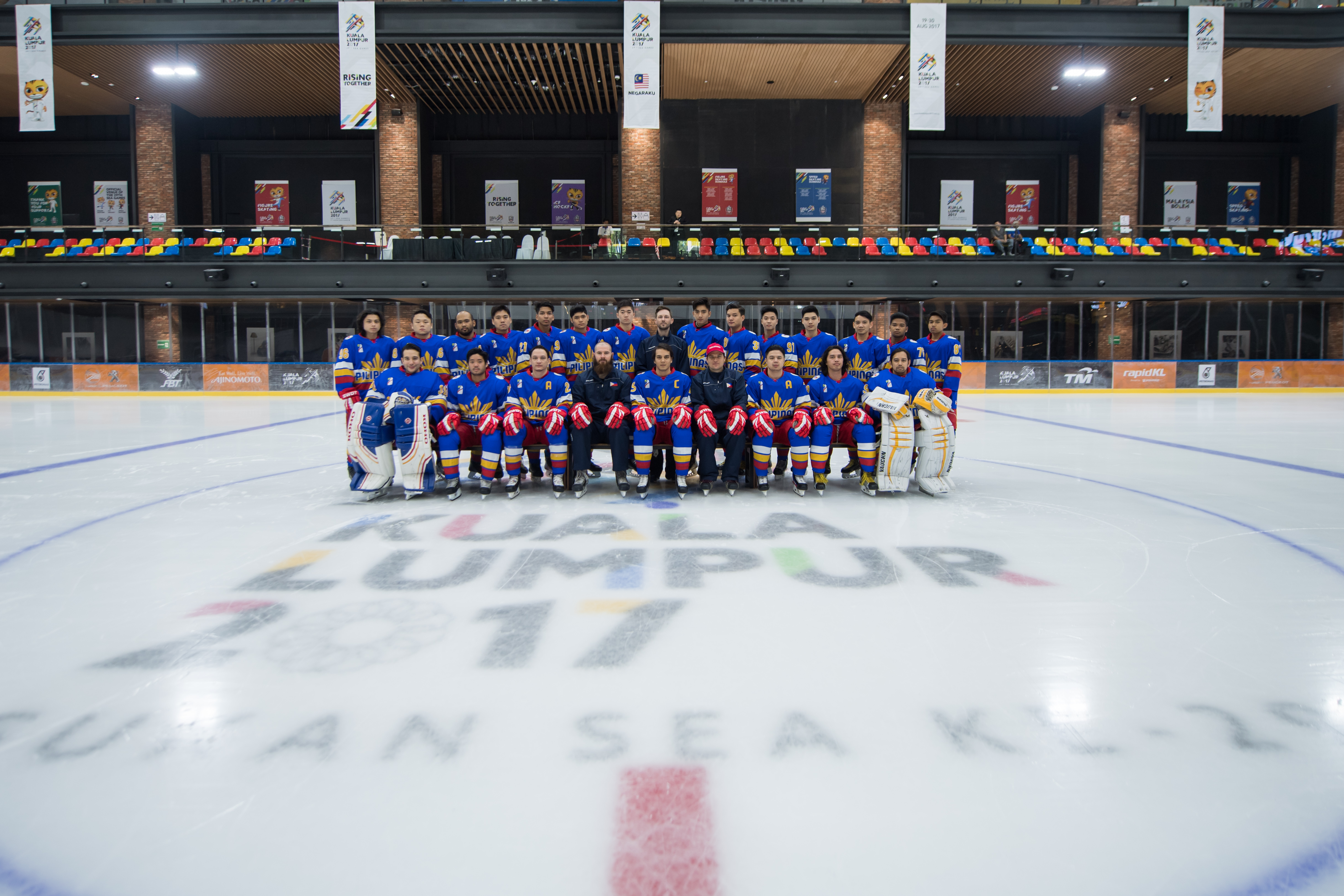 Philippines men's national ice hockey team at the 2017 SEA Games Aug. 19-31 in Kuala Lumpur, Malaysia.